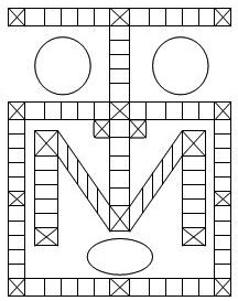 Dhayam Original Board